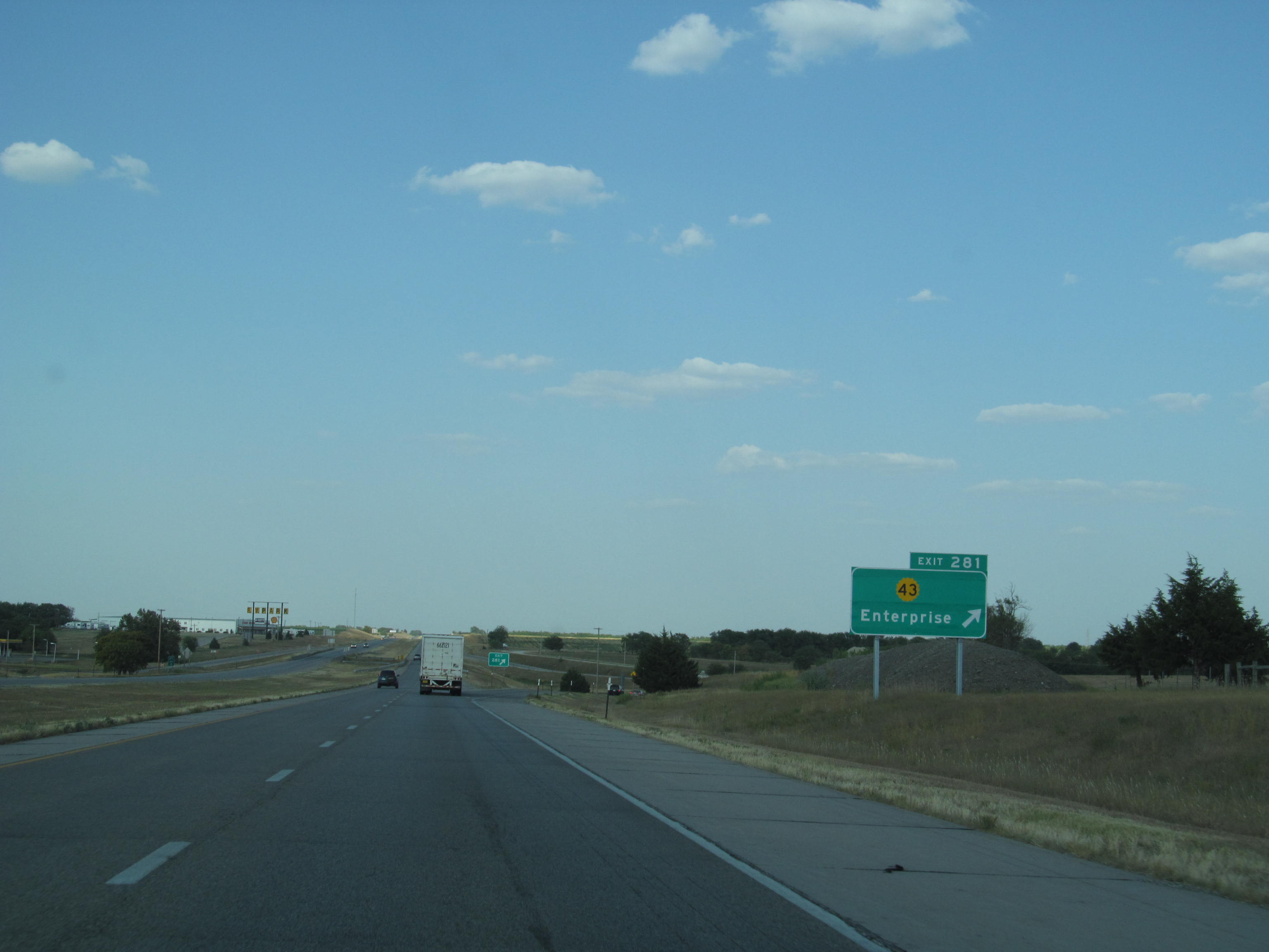 Interstate 70 exit for K-43 (Kansas highway)